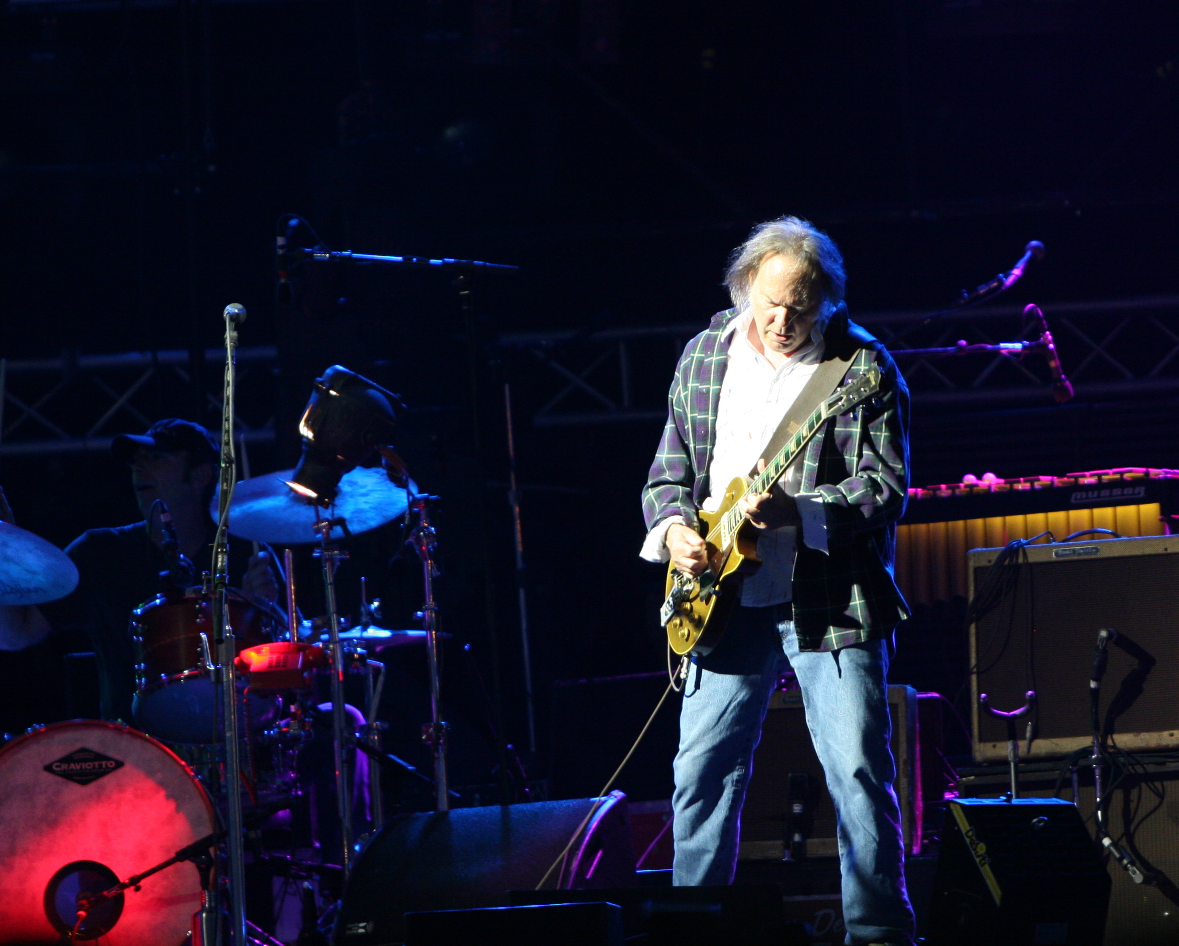 Neil Young at Primavera Sound. In the background, on the left side, is drummer Chad Cromwell.